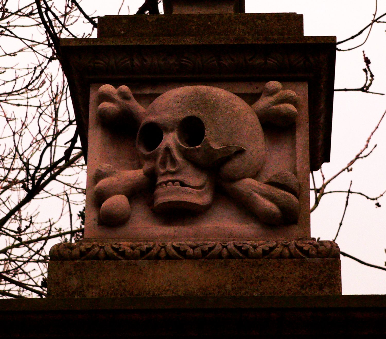 Relief of a skull and crossbones on a gate pier at St Cuthbert's parish church, Kirkleatham, North Yorkshire